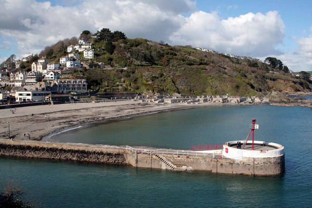 Looe Banjo Pier Taken from across the River on the Hannafore Road. Not many on Looe beach today as it's very cold with a north wind blowing.